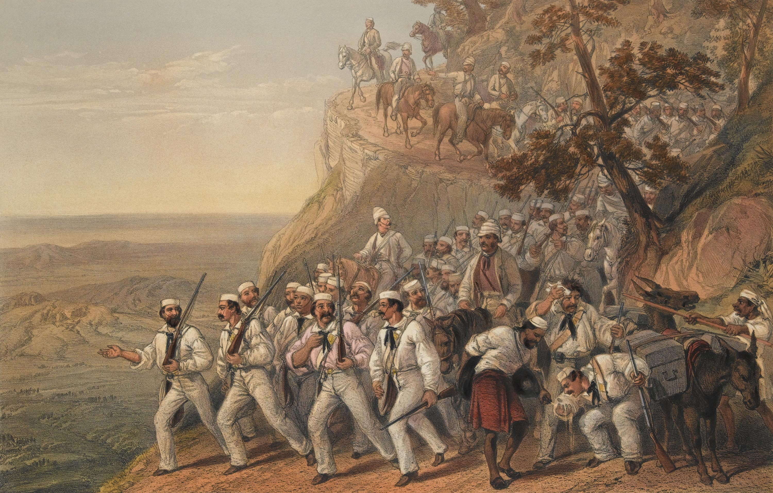 The 1st Bengal Fusiliers Marching Down from Dugshai, after George F. Atkinson, 1857. (National Army Museum, London; 19526). Coloured lithograph from The Campaign in India 1857-58 from drawings made during the eventful period of the Great Mutiny, illustrating the military operations before Delhi and its neighbourhood. A series of 26 coloured lithographs by W Simpson, E Walker and others, after G F Atkinson, published by Day and Son, 1857-58. Capt. George Gladwin Denniss II, one of the officers depicted, wrote to his wife on 1 Oct.1857: "George Atkinson of the Engineers has done a capital sketch of my regiment going down the hill and sent it to me. I will send it to you if you wish to see it". On the outbreak of the Indian Mutiny the order to march on Delhi had been given from Simla, and reached the Regt. at Dugshai via Major George Ogle Jacob on 13 May 1857, upon which the Regt. marched down from its rest station at Dugshai, due to reach Umballa that evening. Major Jacob was killed in action at Delhi on 14 Sept. 1857. Soldiers are depicted wearing campaign dress of grey shirts and white covered forage caps.